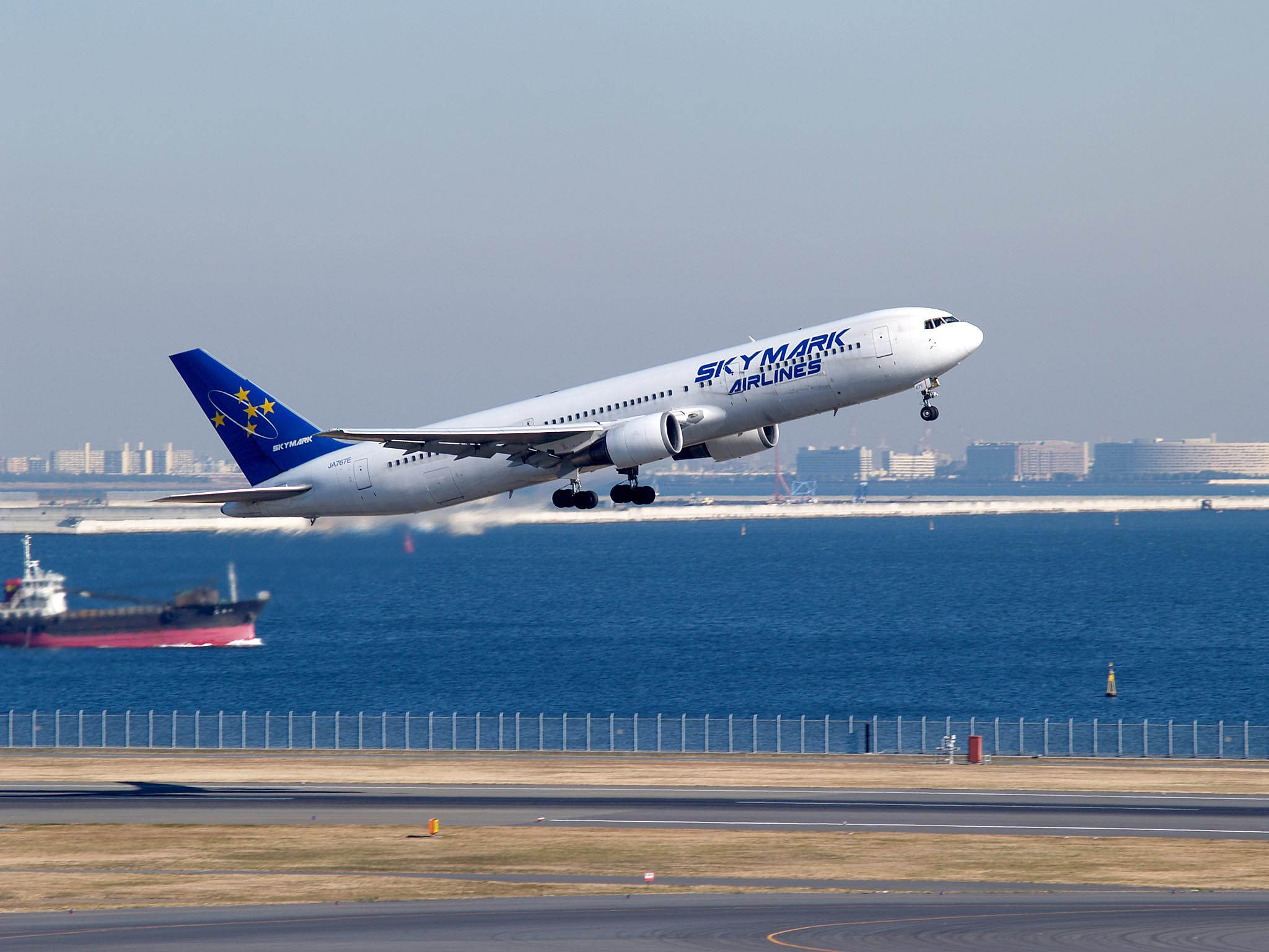 Early fleet of Skymark Airlines. Model: Boeing 767-328ER Resistration: JA767E ex.V8-RBN (Royal Brunei Airlines), 3B-NAZ(Air Mauritius), S7-RGS (Air Algerie) and S7-AAB (Vietnam Airlines) Place: Tokyo International Airport